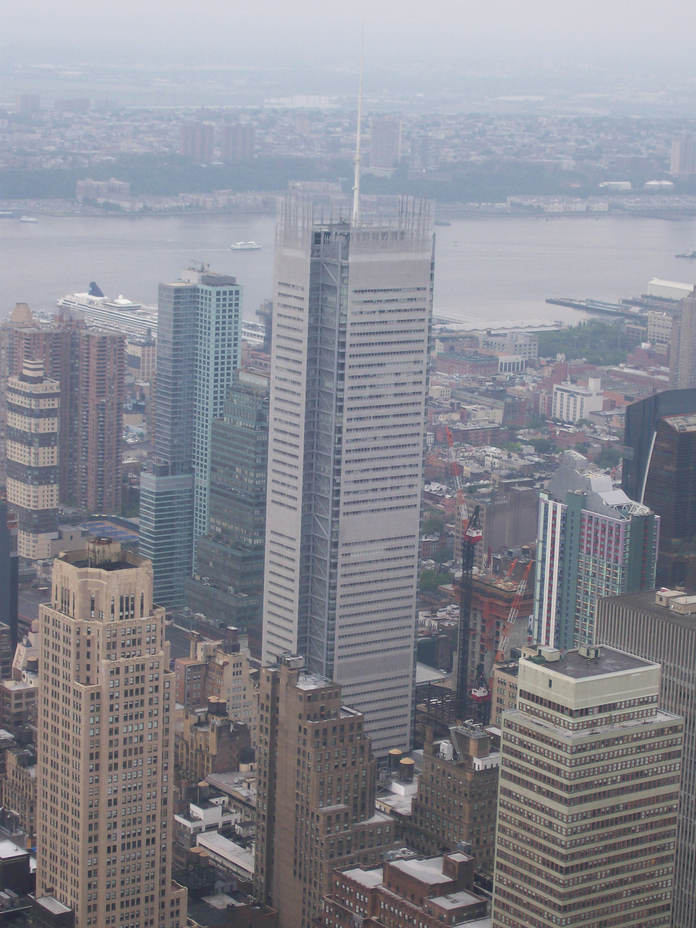 New York Times Tower, New York City